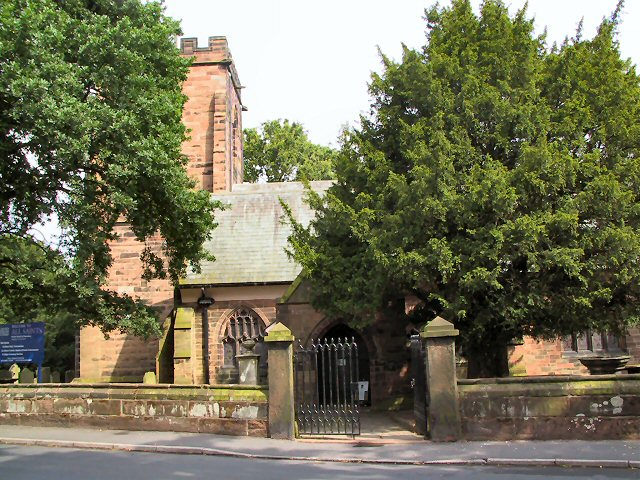 All Saints Church, Daresbury. Literary enthusiasts may know that this church has a stained glass window dedicated to Lewis Caroll, whose father was a minister here.